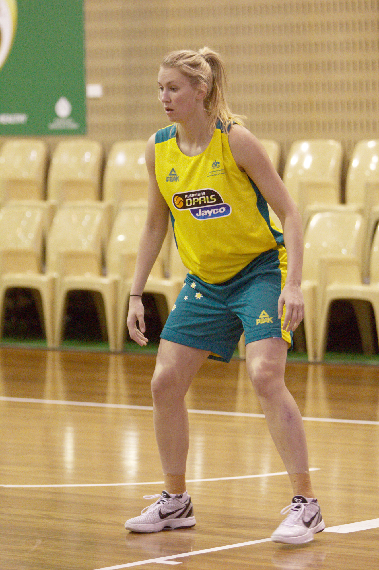 Member of the Opals, Canberra, Australia.